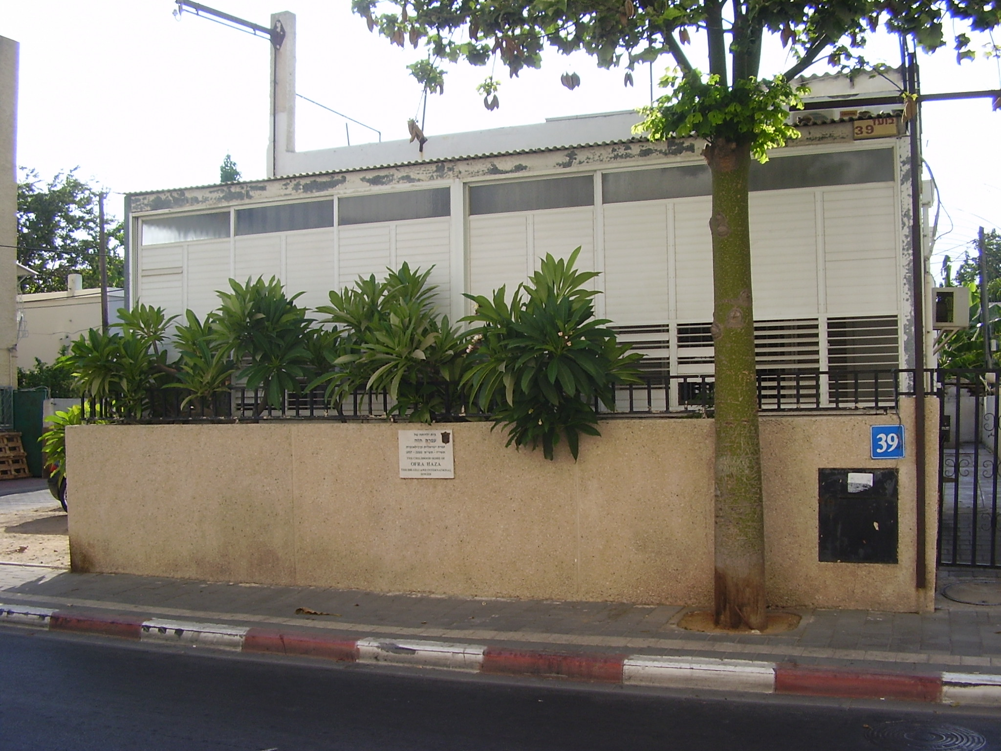 birthplace house of the singer ofra haza in tel aviv